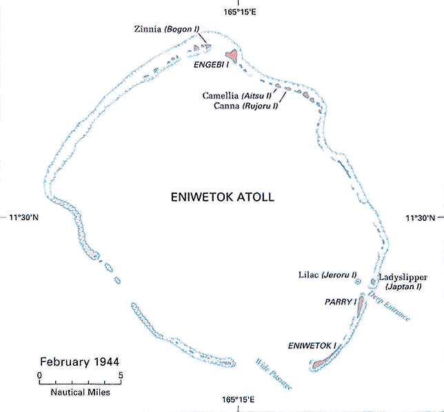 Map of the battle of Eniwetok Downloaded from [1] from The U.S. Army Campaigns of World War II: Eastern Mandates and converted to PNG